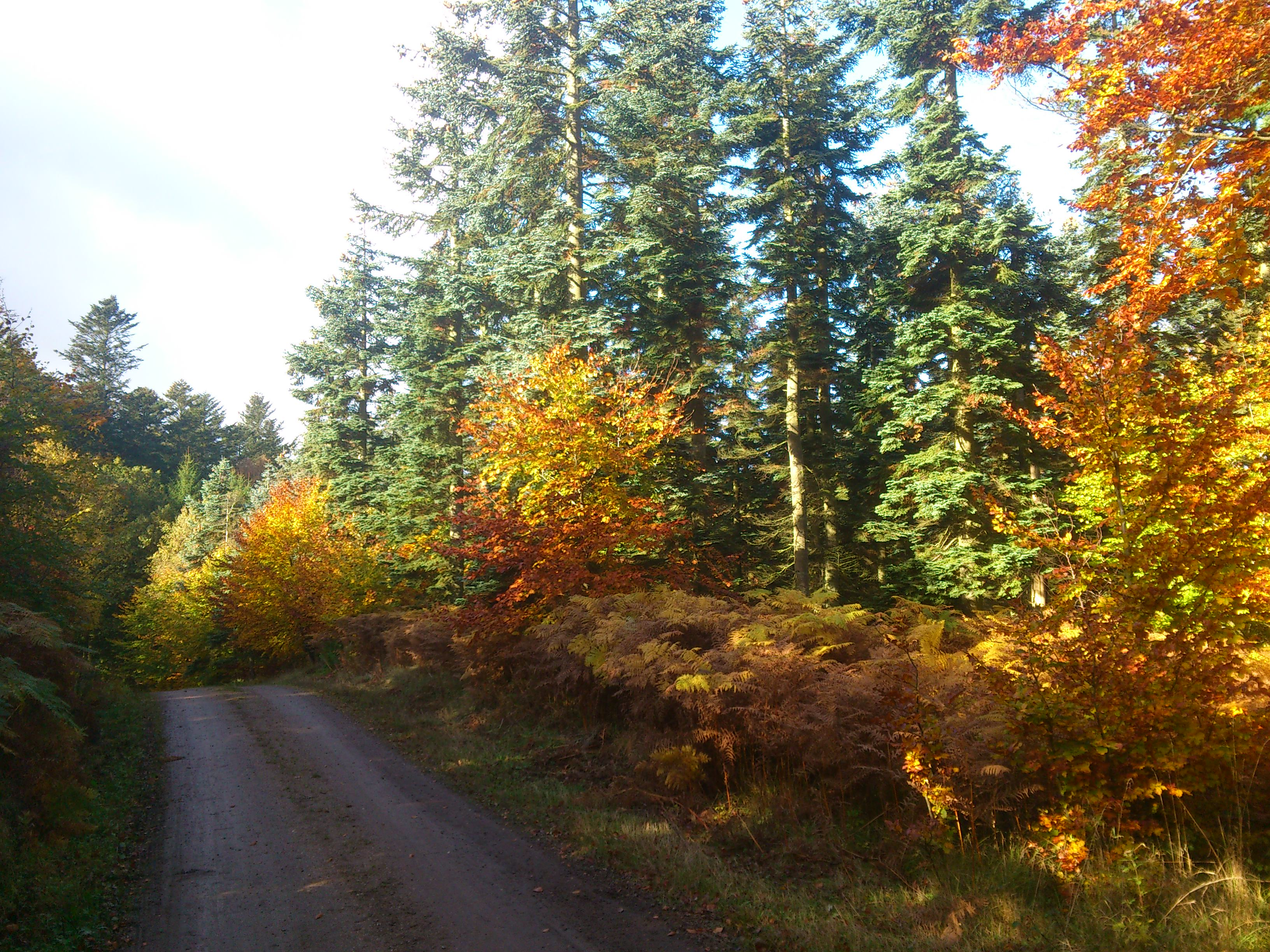 Walking the Skjoldunge (Scyldinga) path through the Bidstrup Forests on mid Zealand, Denmark